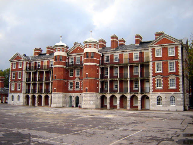 Royal Army Medical College North Block (now part of Chelsea College of Art and Design), Pimlico, London. 29 October 2005. Photographer: Fin Fahey Note: This building is given over entirely to administration, with no available studio space for students.